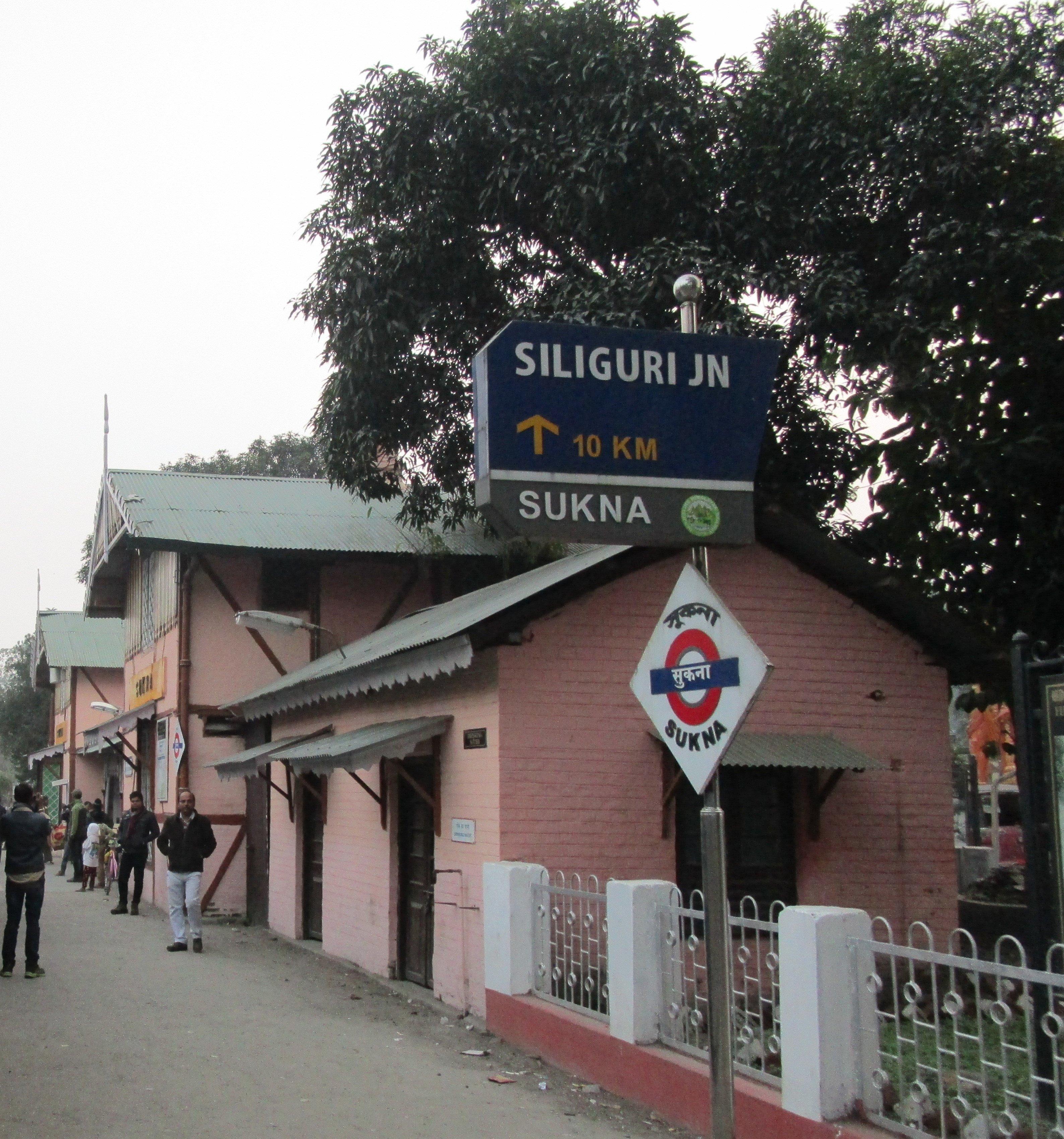 Sukna Railway Station at Darjeeling.